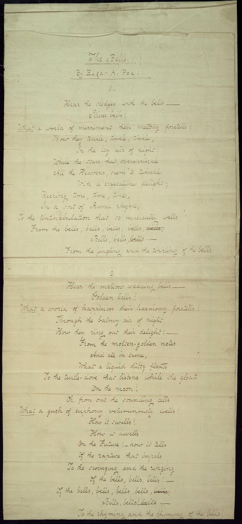 A scan of the 1848 fair copy of the poem "The Bells" by Edgar Allan Poe.